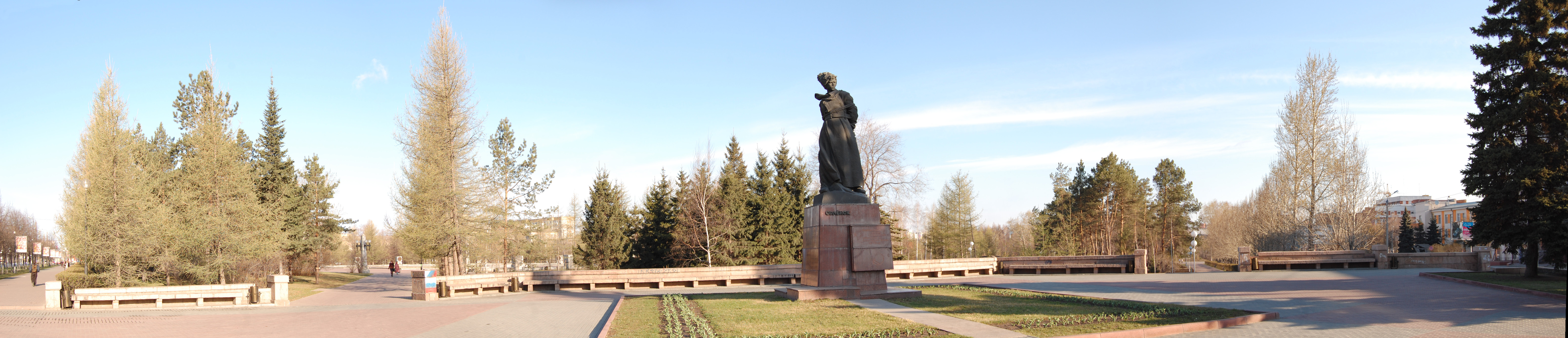 Orlyonok Monument in Chelyabinsk, Russia. Dedicated to Soviet-time teenage soldiers.